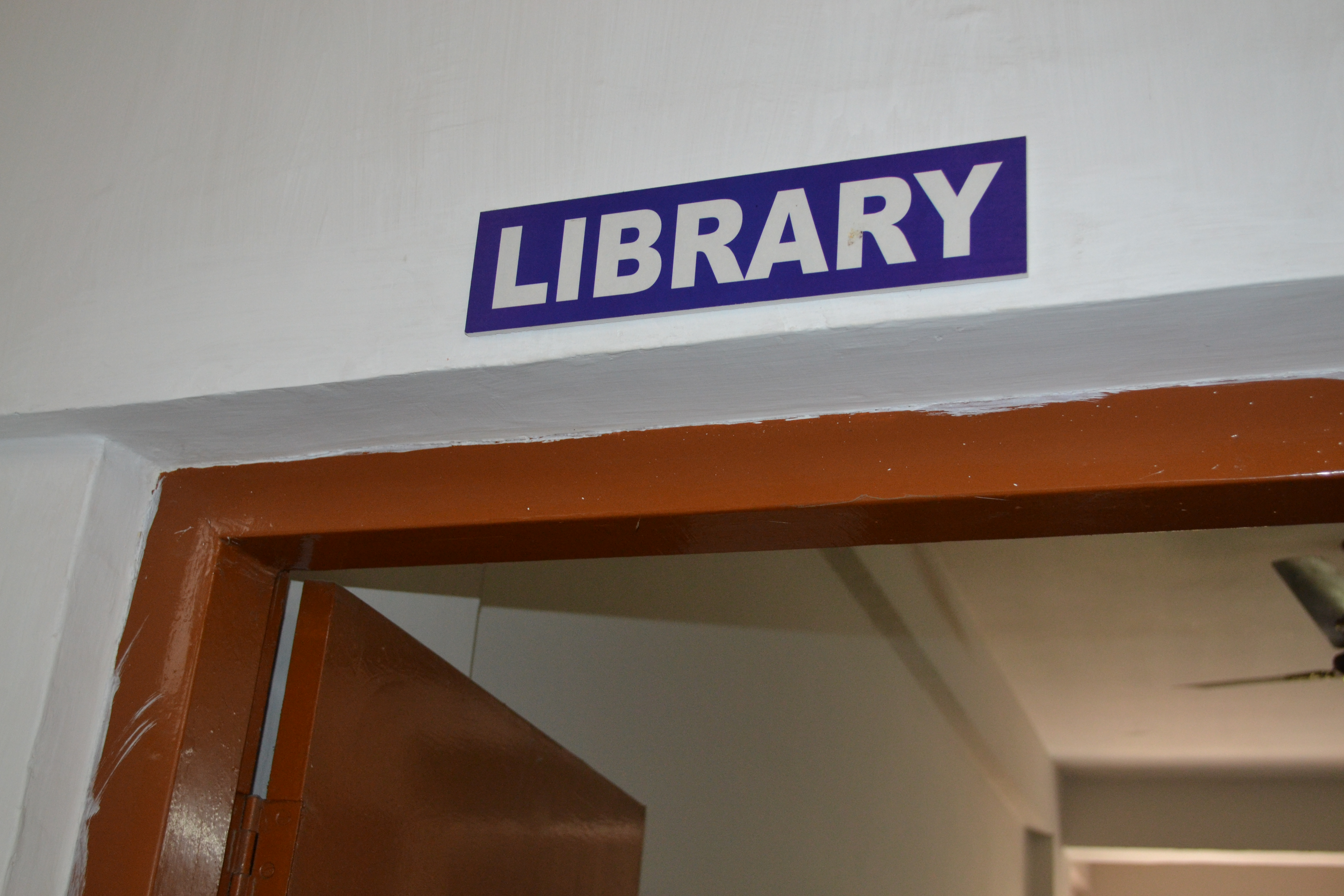 Mobile Library 2012 program by Singing Skylarks